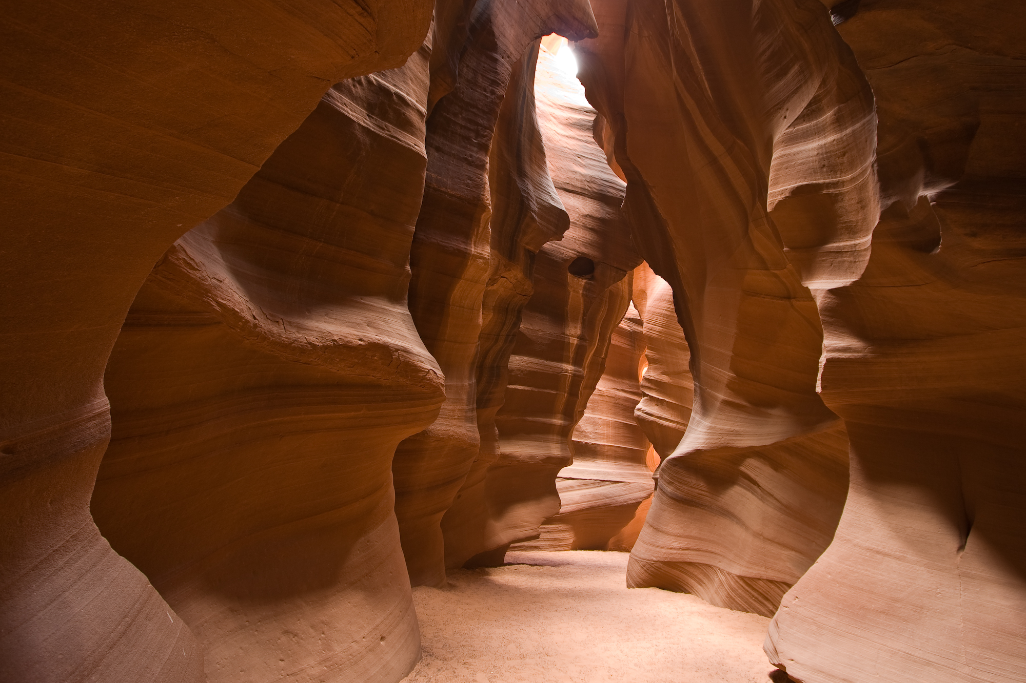 Inside Upper Antelope Canyon, Page, Arizona. Antelope Canyon is a slot canyon in the American Southwest that was formed by erosion of Navajo Sandstone, primarily due to flash flooding and secondarily due to other Sub-aerial processes. Arizona, USA.